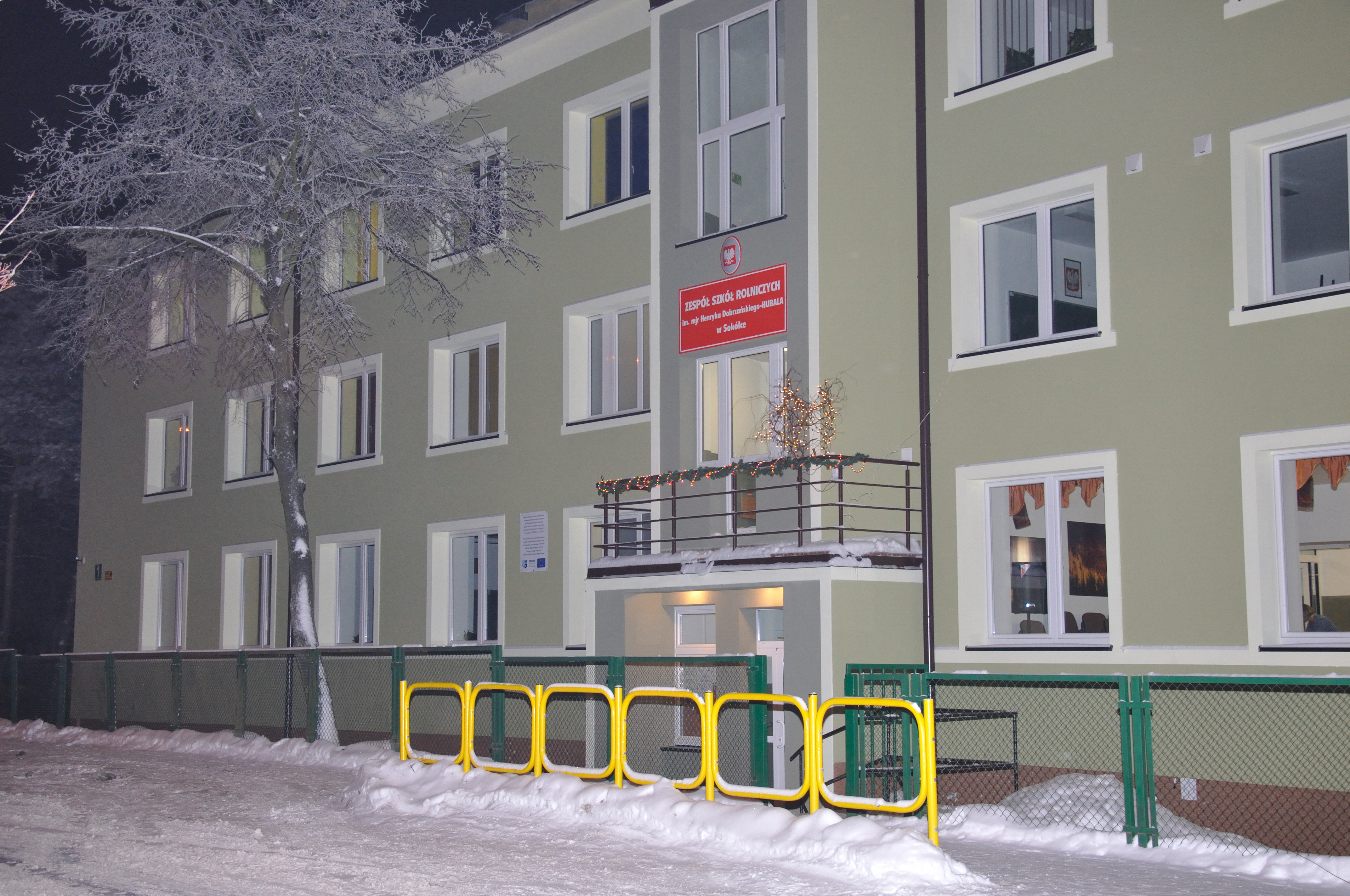 Zespół Szkół Rolniczych w Sokółce ul. Polna 1